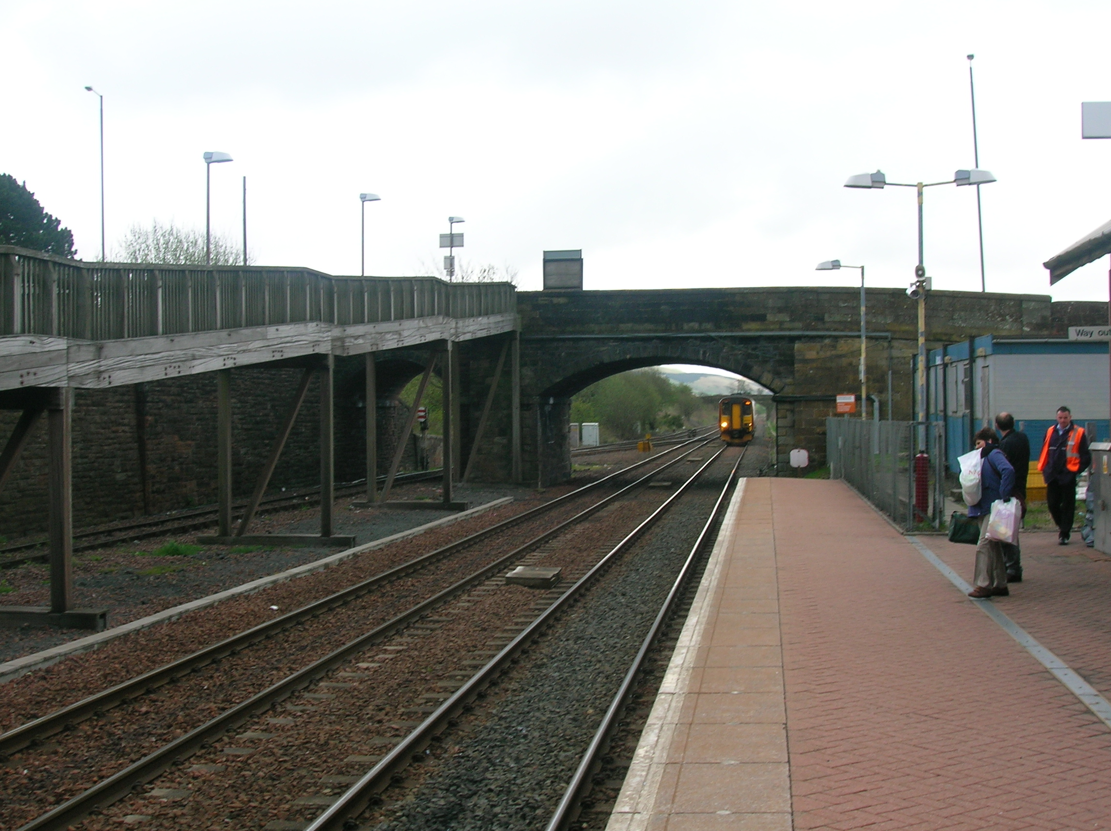 New Cumnock station on the Glasgow - Kilmarnock - Dumfries - Carlisle railway line. Scotland. April 2007. A train arriving from Carlisle. Rosser 14:41, 19 April 2007 (UTC)